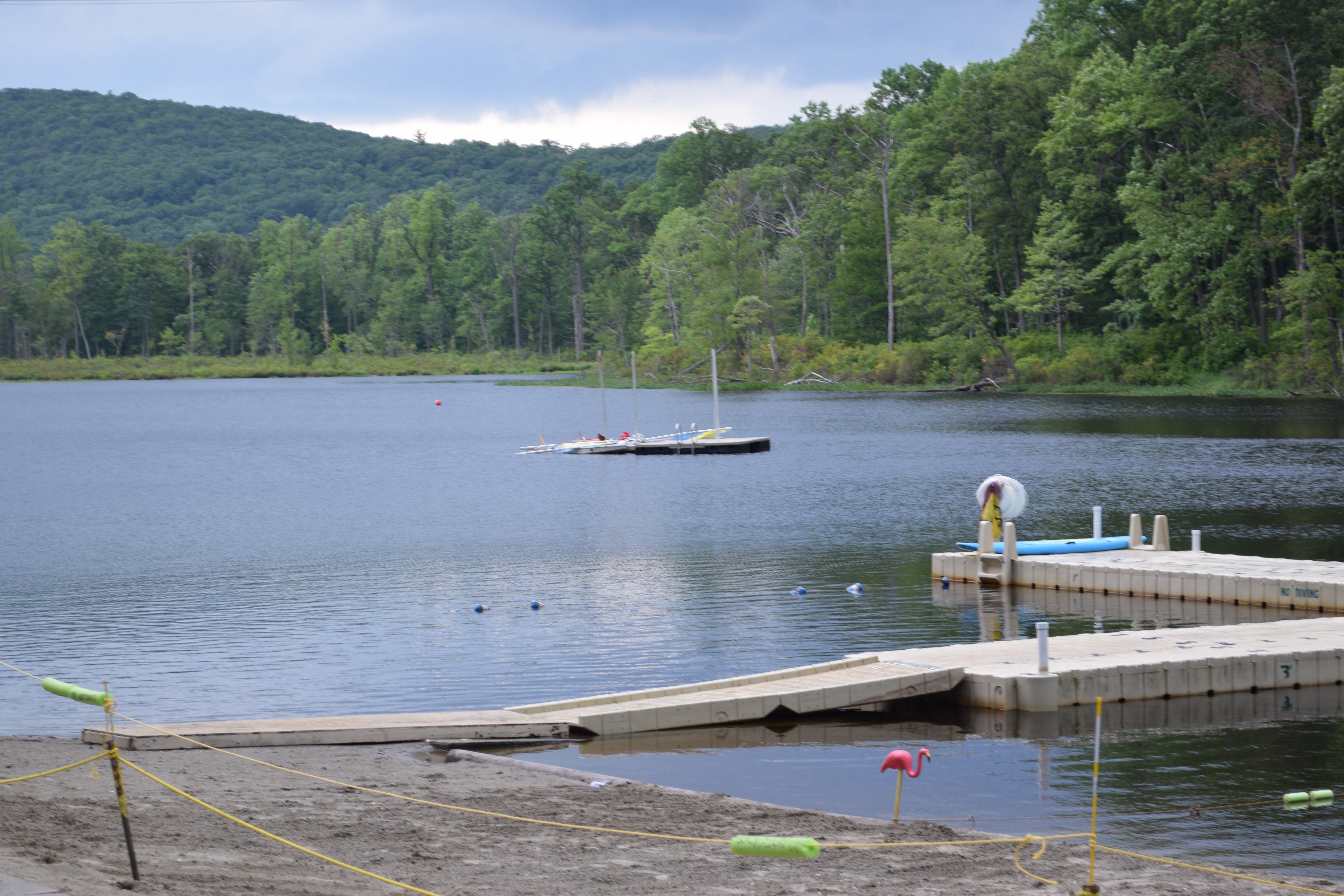 A boat on Sand Pond at Scout Camp NoBeBoSco